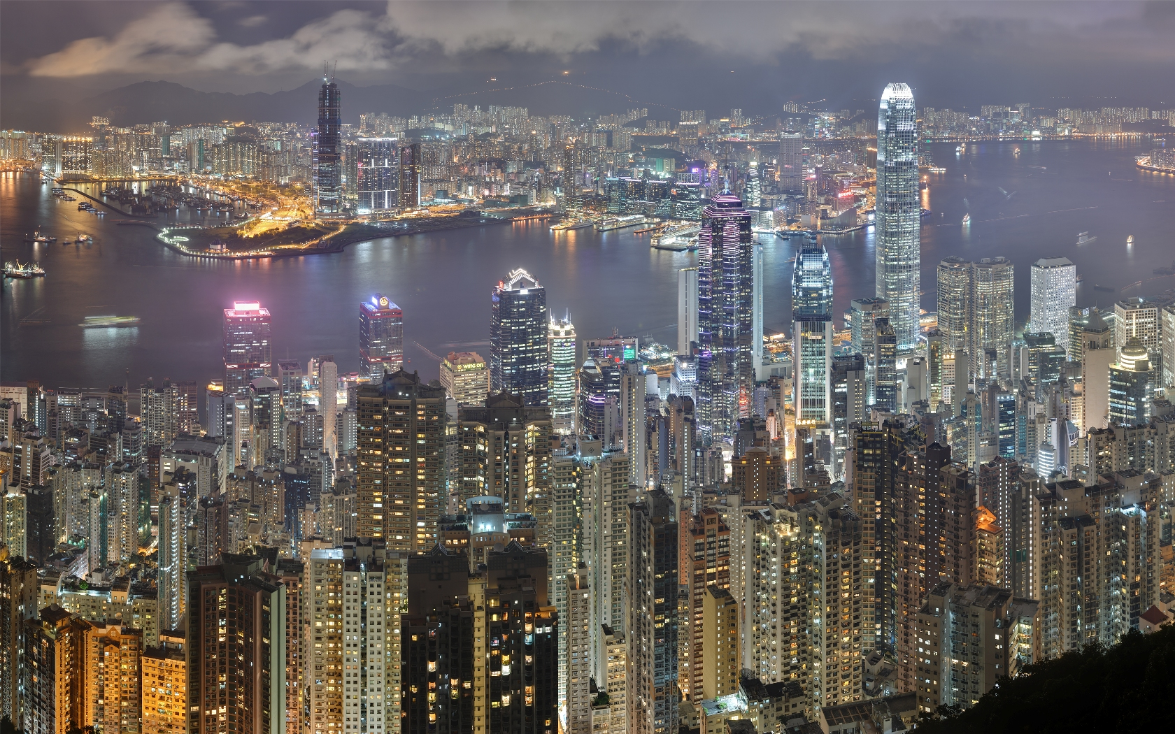 Panorama of the Hong Kong night skyline. Taken from Lugard Road at Victoria Peak. Picture by Base64 and CarolSpears Finalist, Picture of the Year 2008 Desktop Background Wallpaper 1680x1050 Original at Kong Night Skyline.jpg